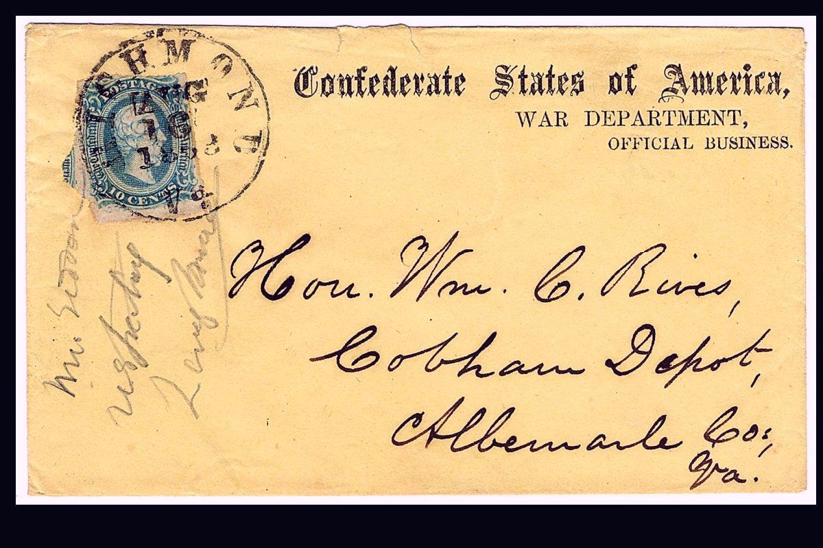 Confederate mail to the CSA War dept, 1863